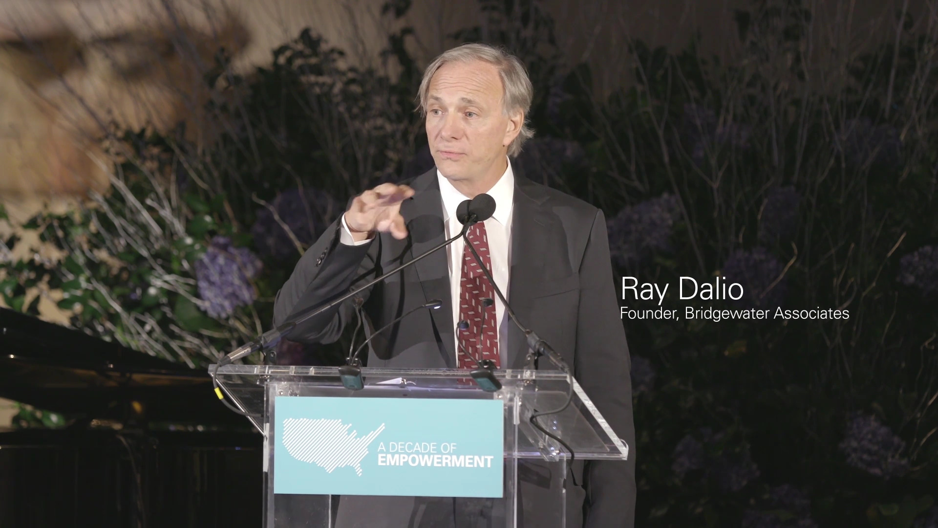 Ray Dalio while giving a speech at the 10th anniversary celebration of charity Grameen America. Metropolitan Museum of Art, September 23 2017.